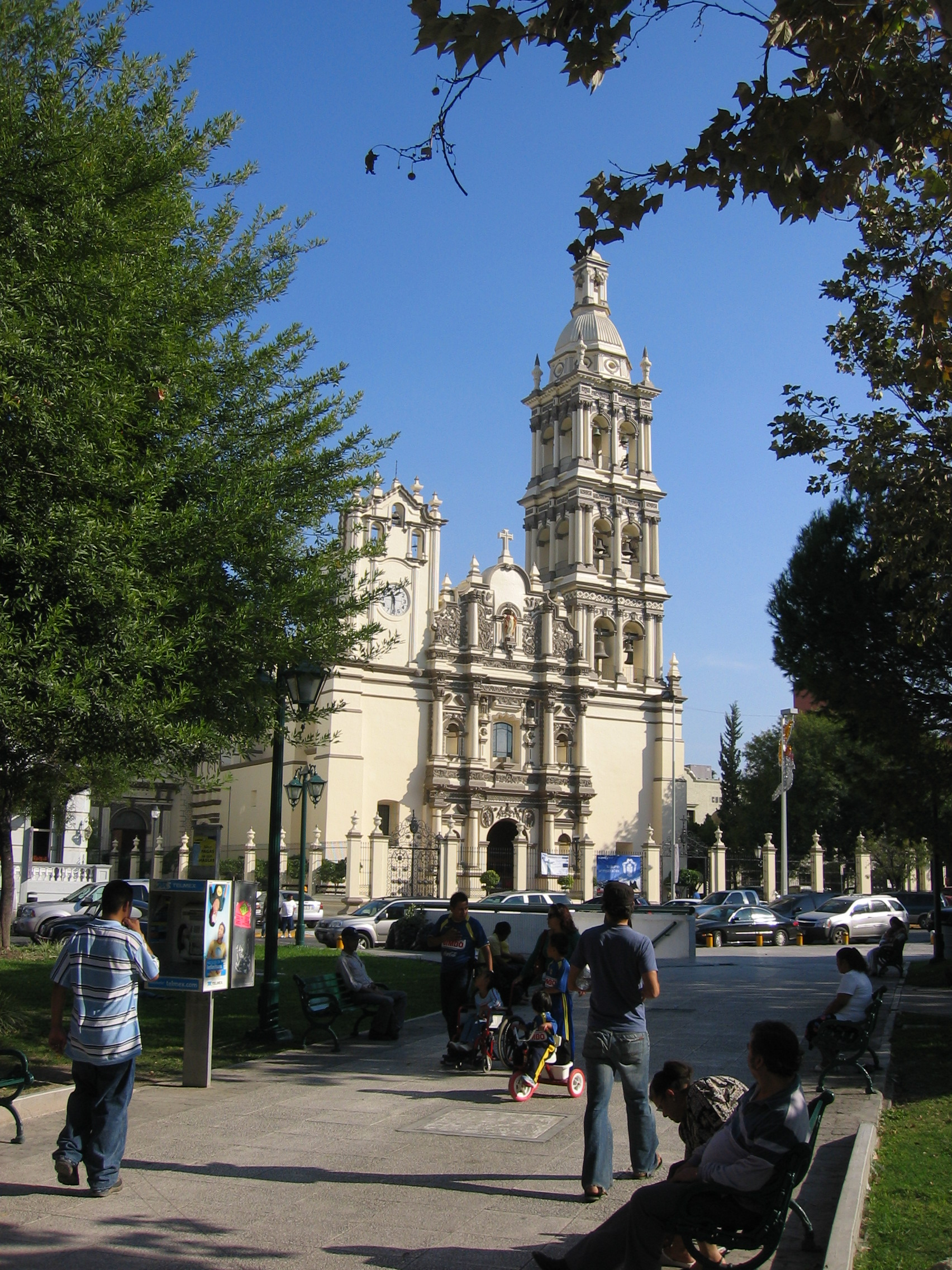 Monterrey Cathedral (Mexico XVIII-XIX)